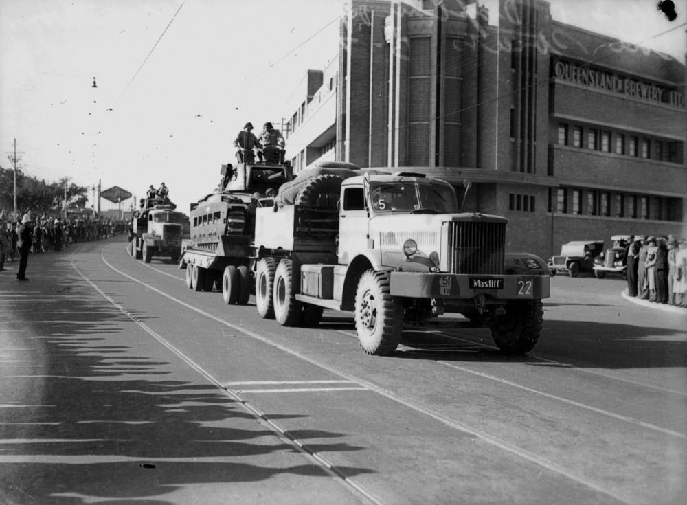 Parade of military vehicles through the streets of Brisbane, July 1942. Parade is moving down Ann Street toward the city. The Queensland Brewery Building is in the background.